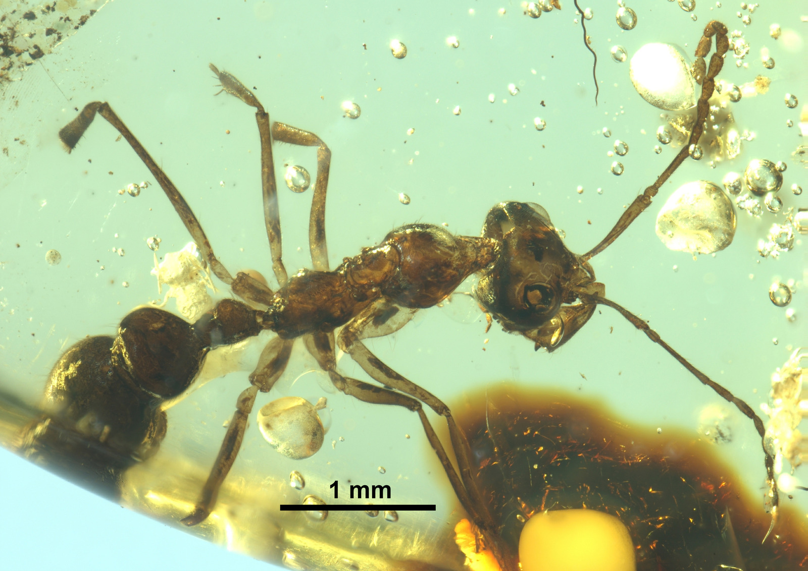 Dorsal view of the Linguamyrmex brevicornis holotype worker. Burmese amber, Earliest Cenomanian; Noije Bum Village, near Myitkyina, Kachin State, Myanmar Nanjing Institute of geology and paleontology, Nanjing, Jiangsu, China. specimen NIGP172001 Ant web specimen FANTWEB00025